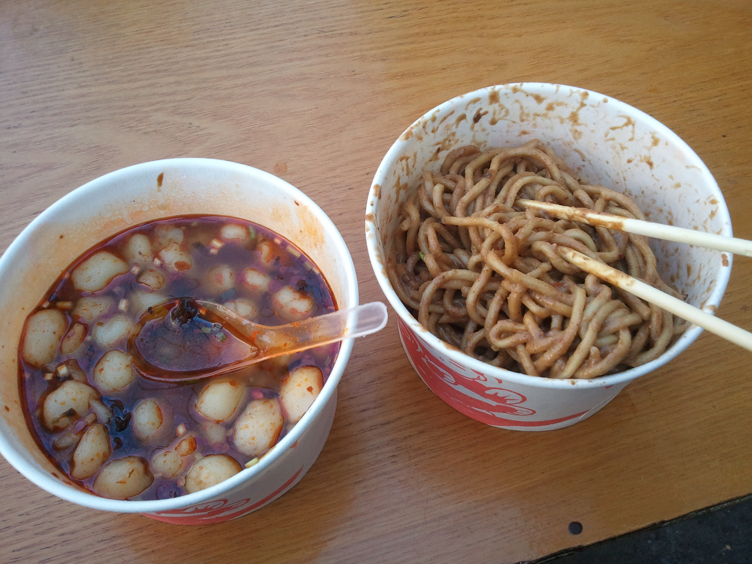 dòufu wánzi (豆腐丸子, tofu balls) and rè gān miàn, (热干面 hot and dry noodles), two typical Hubei province xiaochi. In Shashi.